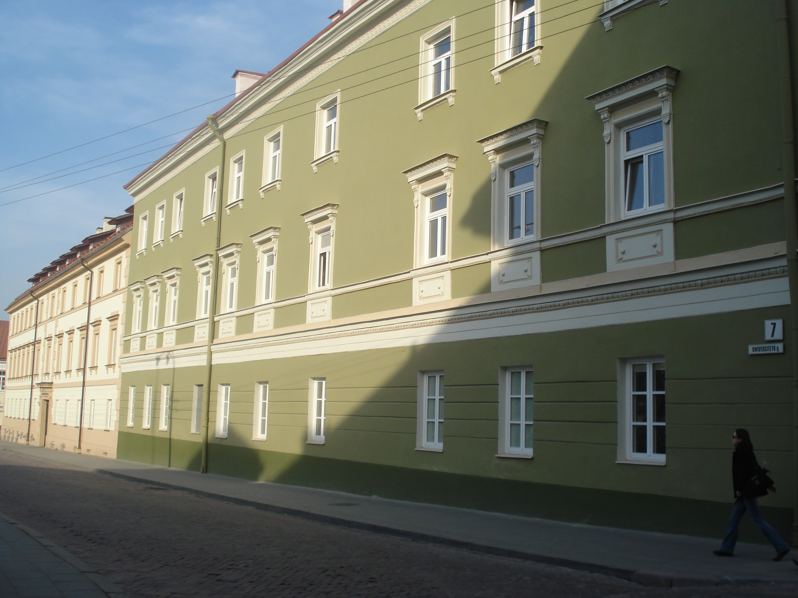 Vilnius university. The Faculty of Philosophy (left, Universiteto g. 9), the Faculty of History (right, Universiteto g. 7)